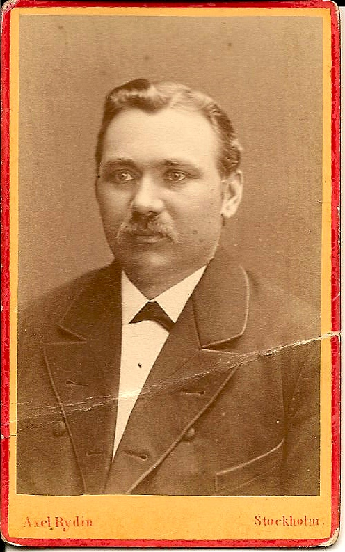 Swedish politician from late nineteenth century